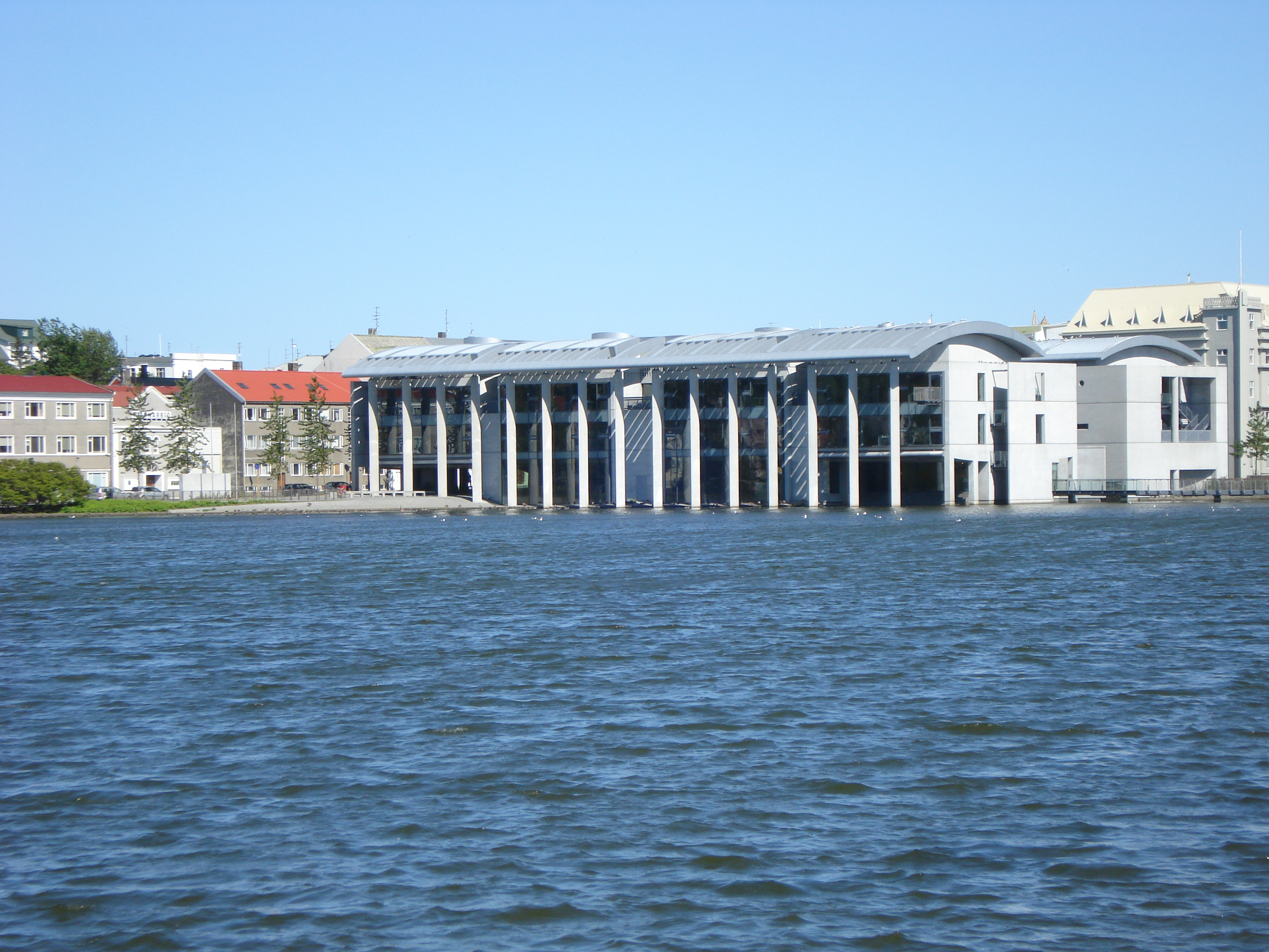 Cityhall of Reykjavik, Ráðhúsið